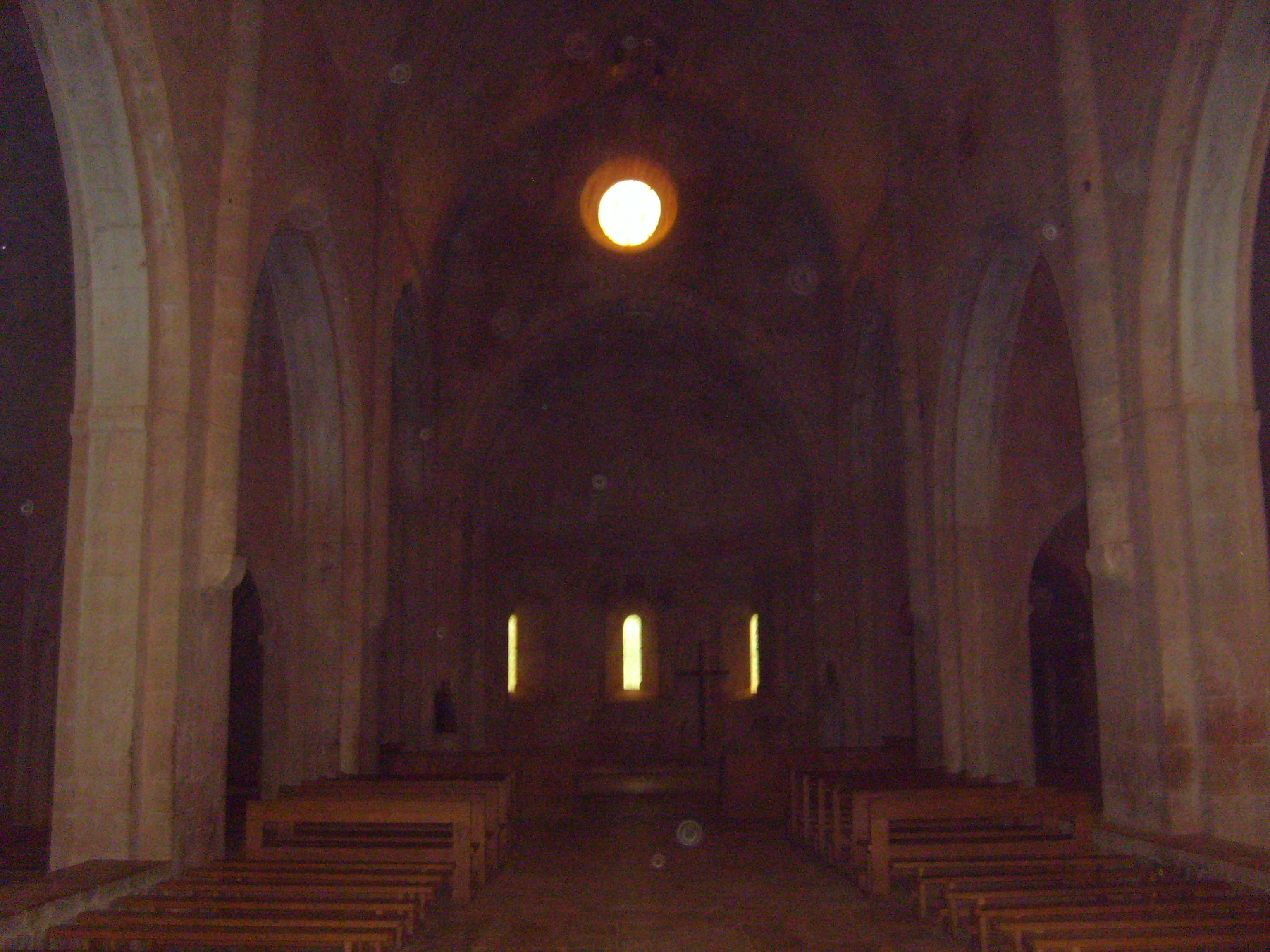 Interior of Church, Le Thoronet Abbey, Provence, France